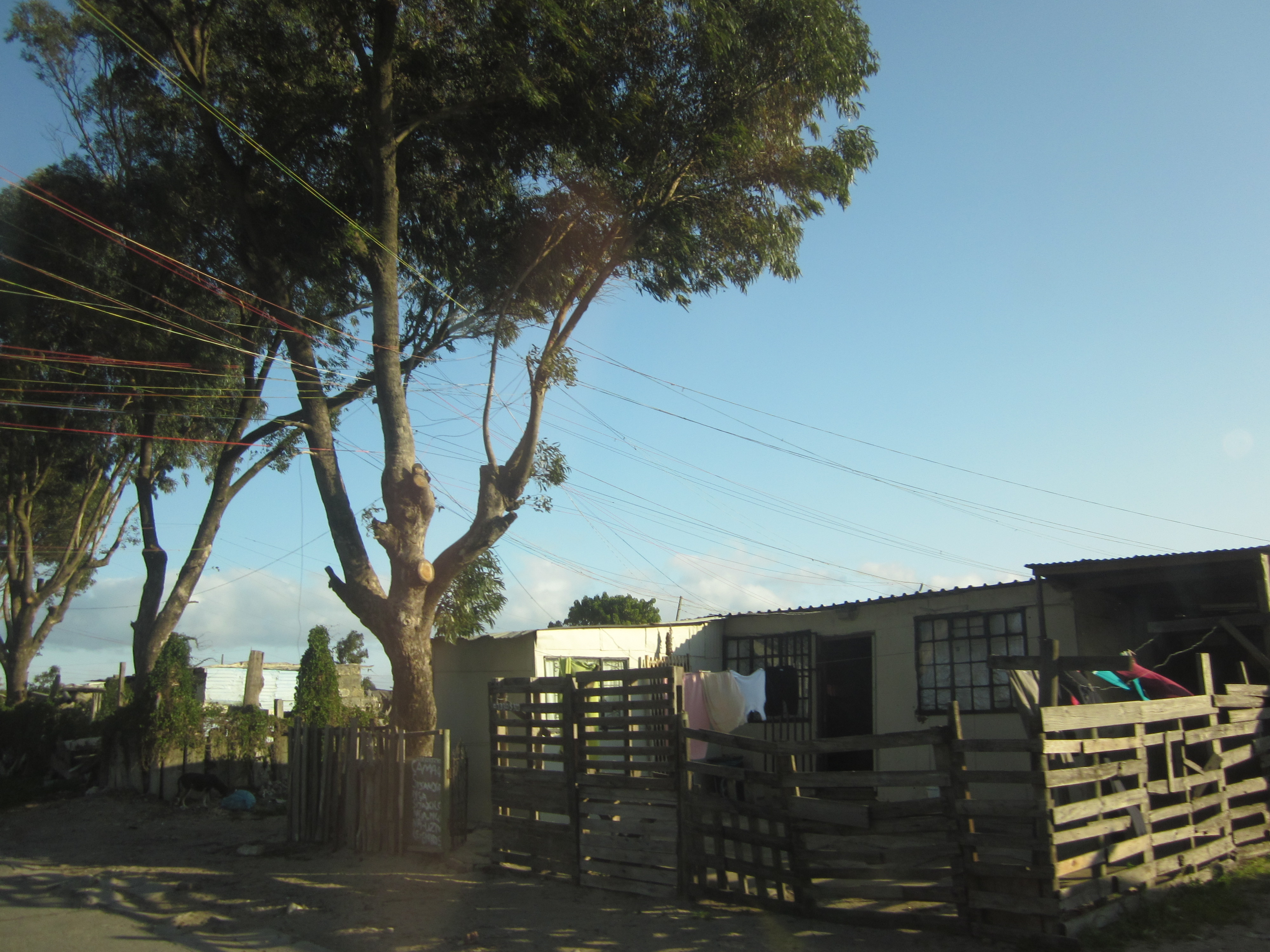 Picture of the electricity wires in Langa